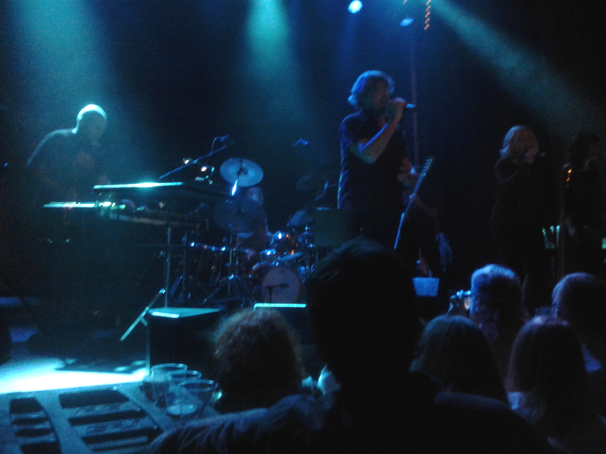 Magma at Prague gig